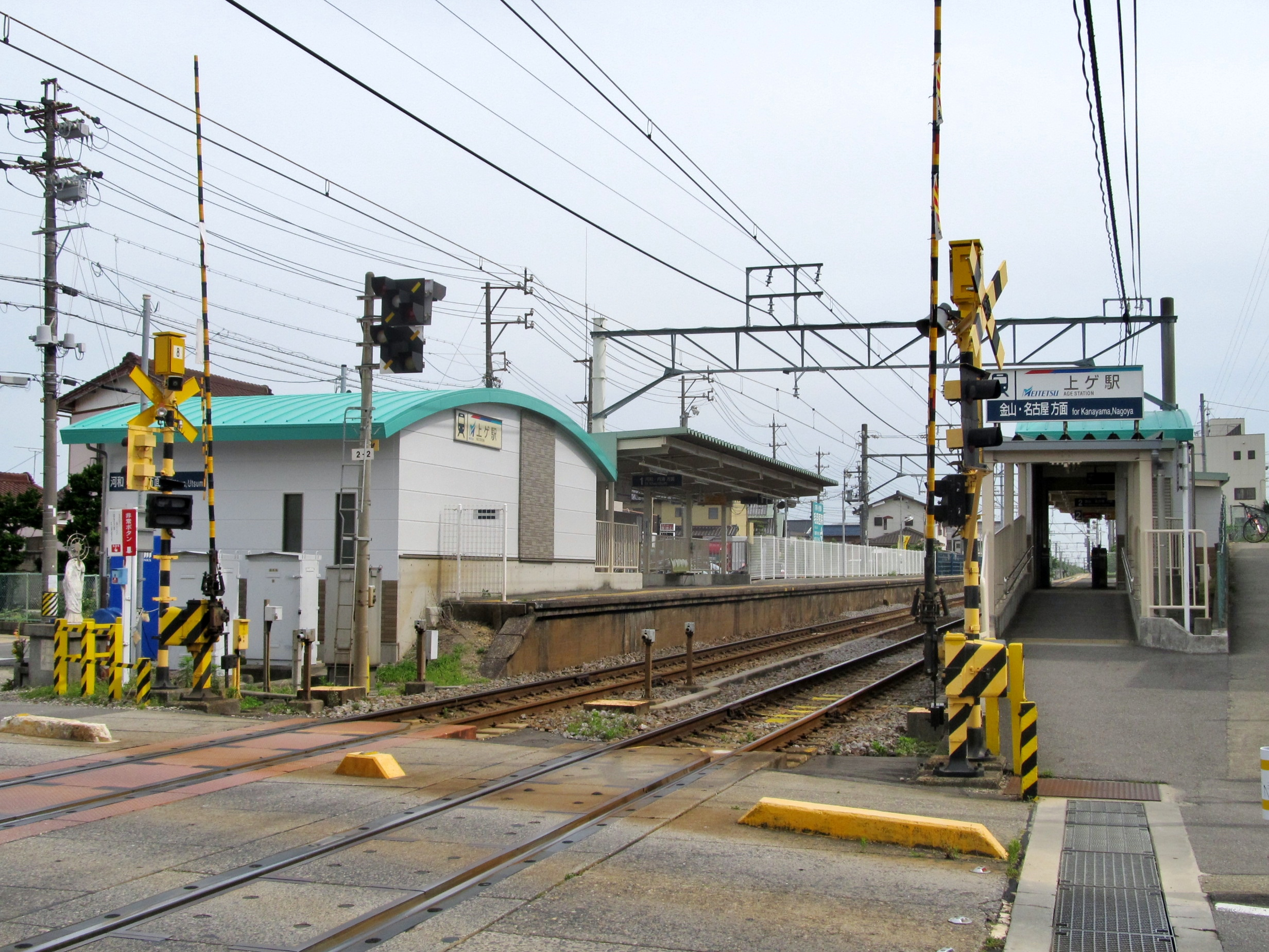 Nagoya Railroad Kōwa Line Age Station Building